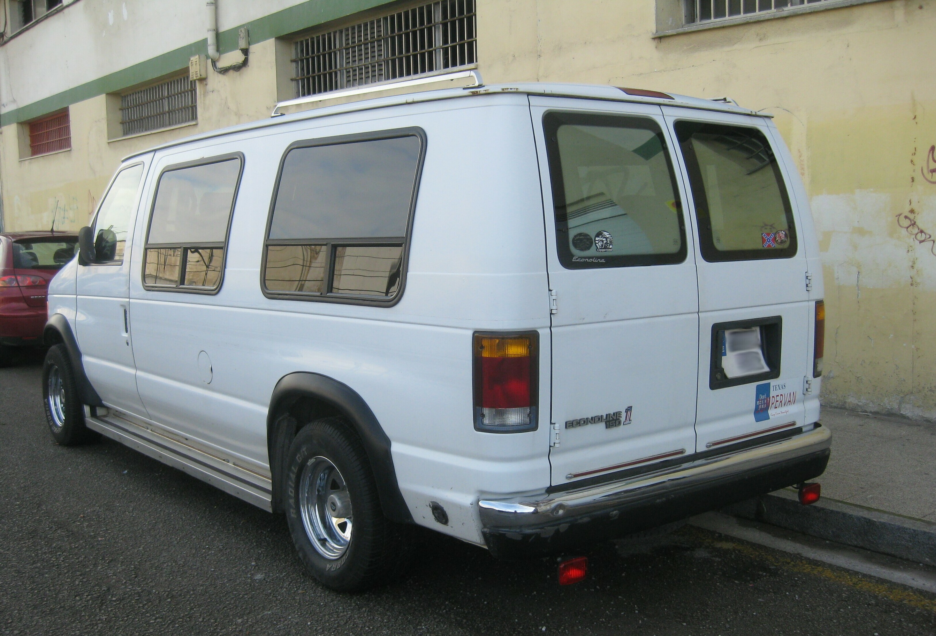 Cool American van that's always near where I live, needless to say this has never been sold in Spain so finding it is a true rarity. This one has been converted into a camper van, it had a 2008 plate which is obviously too new for it, so it's been likely imported in that year, it surprises me though that the owner was allowed to import this to Spain seing how extrict pollution laws are nowadays.